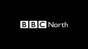 BBC North logo